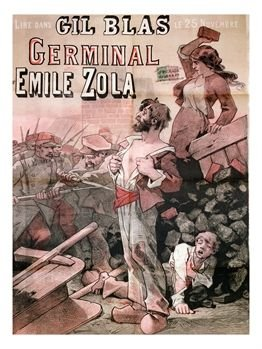 Advertisement for the serialization of "Germinal" by Emile Zola in the magazine "Gil Blas" on 25 November 1884.